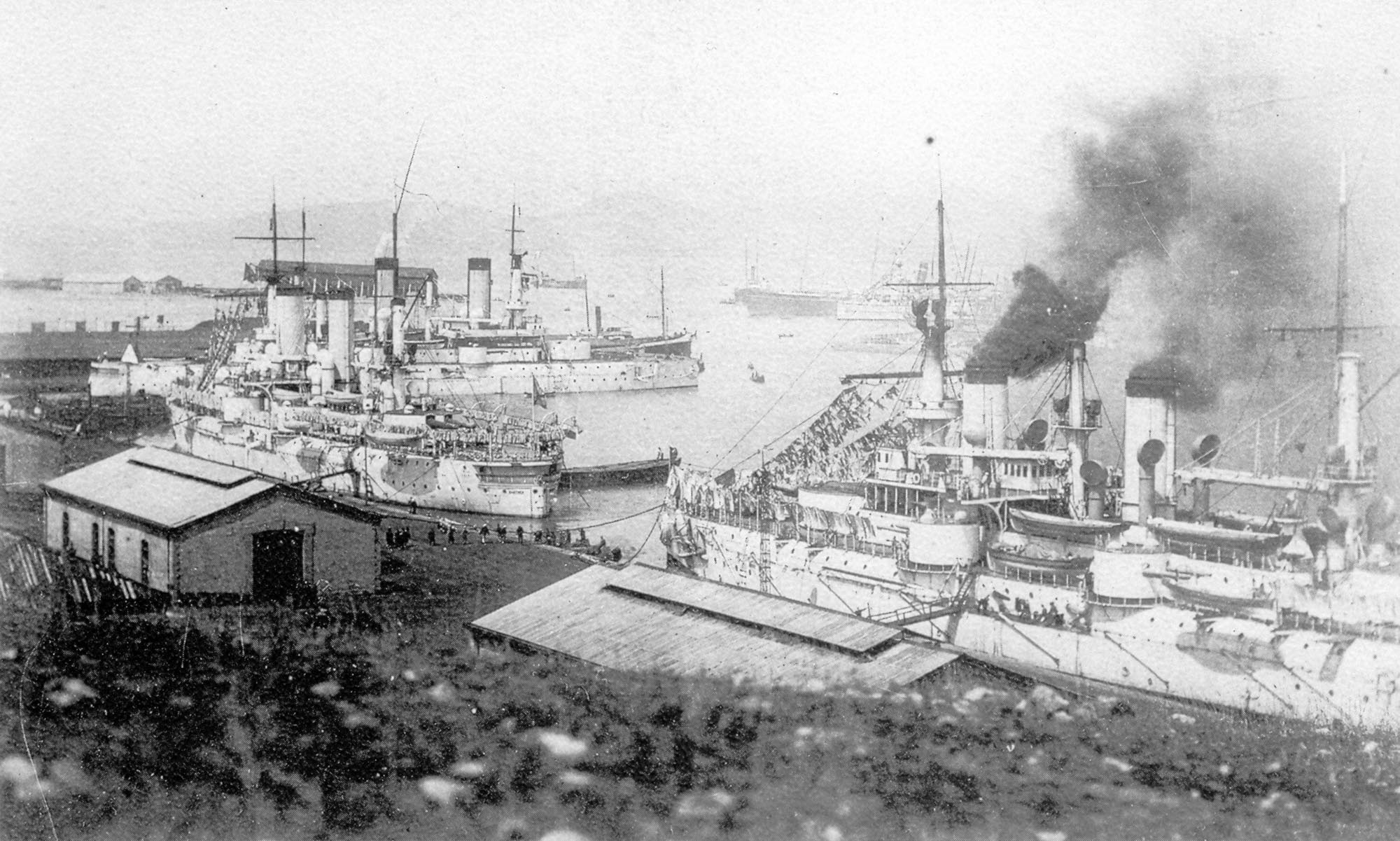 The Imperial Russian battleships Sevastopol, Poltava and Petropavlovsk in Port-Arthur, 1901-1903.